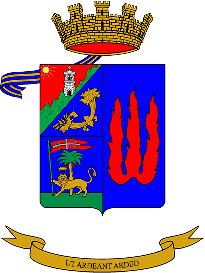 Coat of Arms of the NCO School; Italian Army.